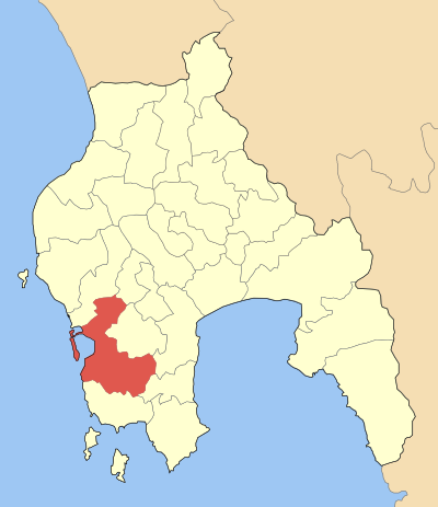 Locator map of Pylou municipality (Δήμος Πύλου) at Messinia perfecture, Greece.